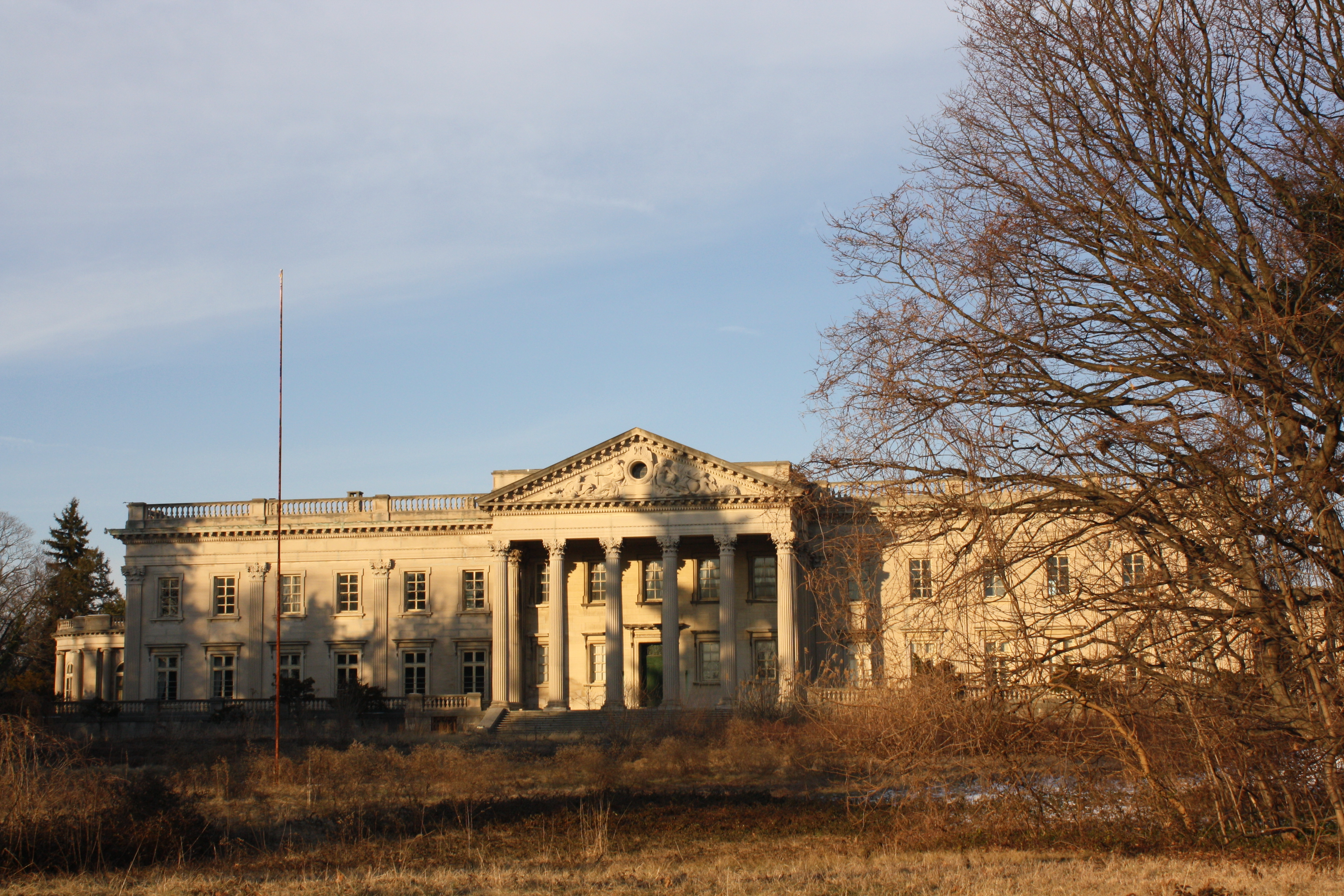 Lynnewood Hall, a 110-room Neoclassical Revival mansion in Elkins Park, Montgomery County, Pennsylvania, designed by architect Horace Trumbauer for industrialist Peter A. B. Widener between 1897 and 1900.